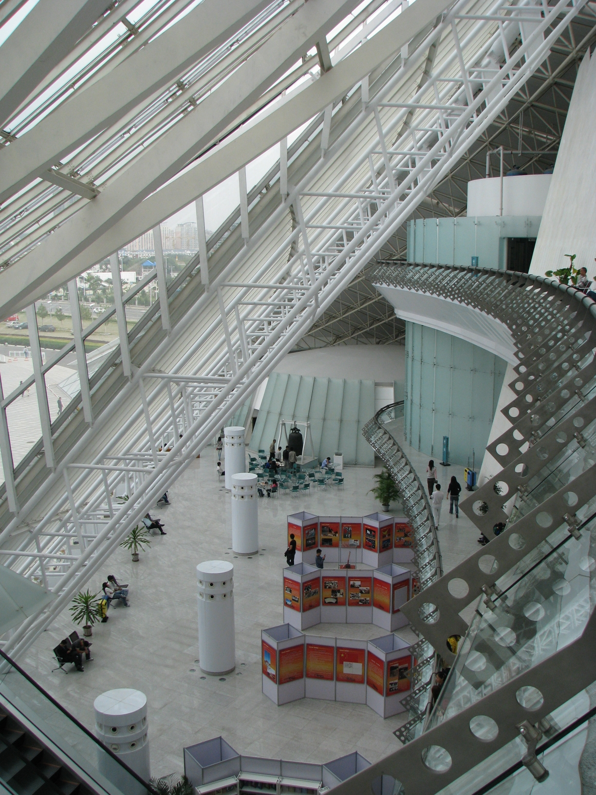 Tianjin Museum, view from 3rd floor inside (small, lowres)